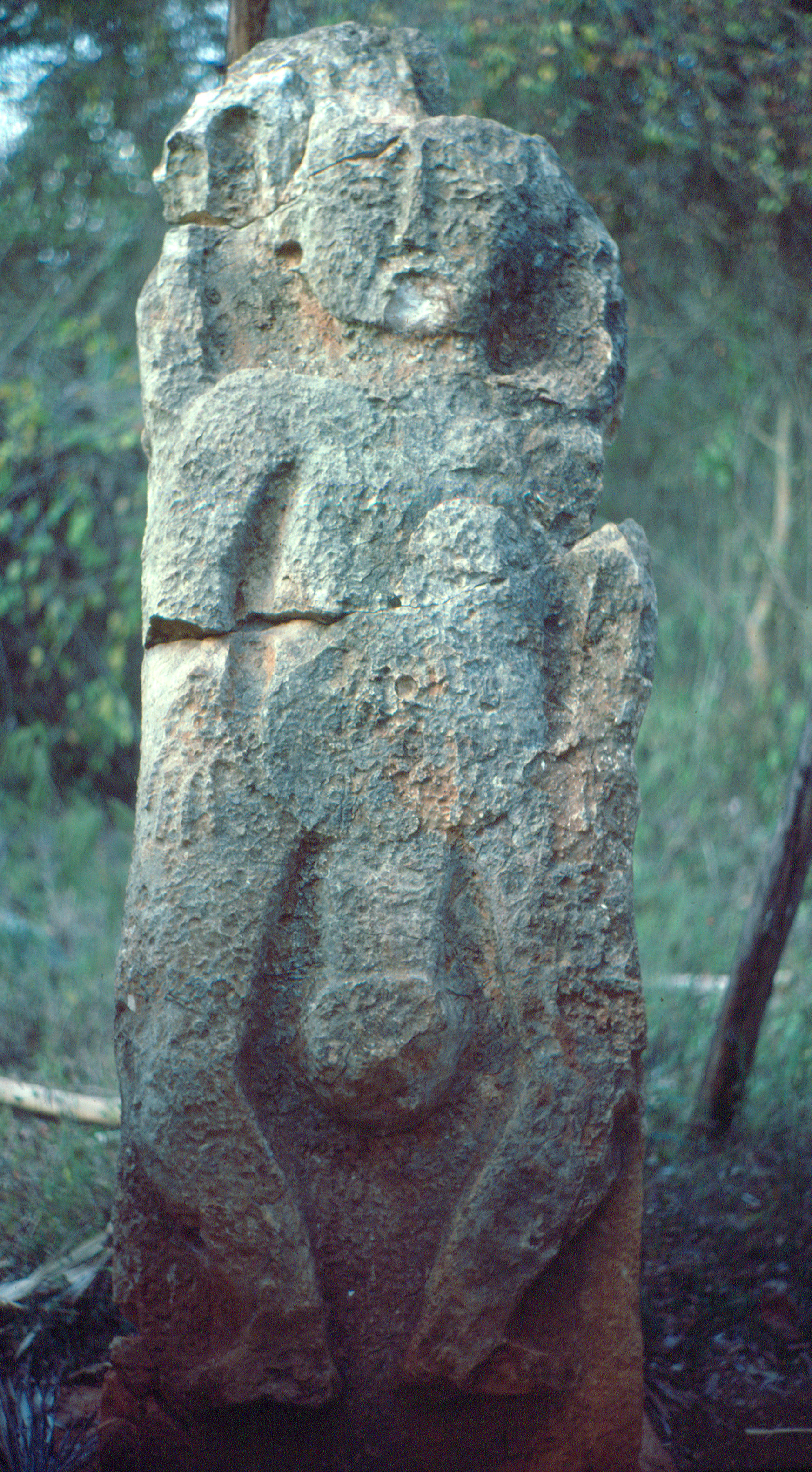 Sayil, Yucatan, Mexico: Stela 9.